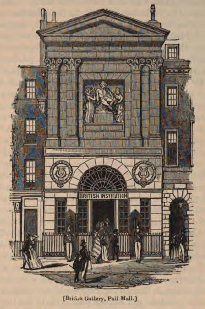 British Gallery, Pall Mall (engraving of the British Institution building at 52 Pall Mall, London, formerly John Boydell's Shakespeare Gallery)